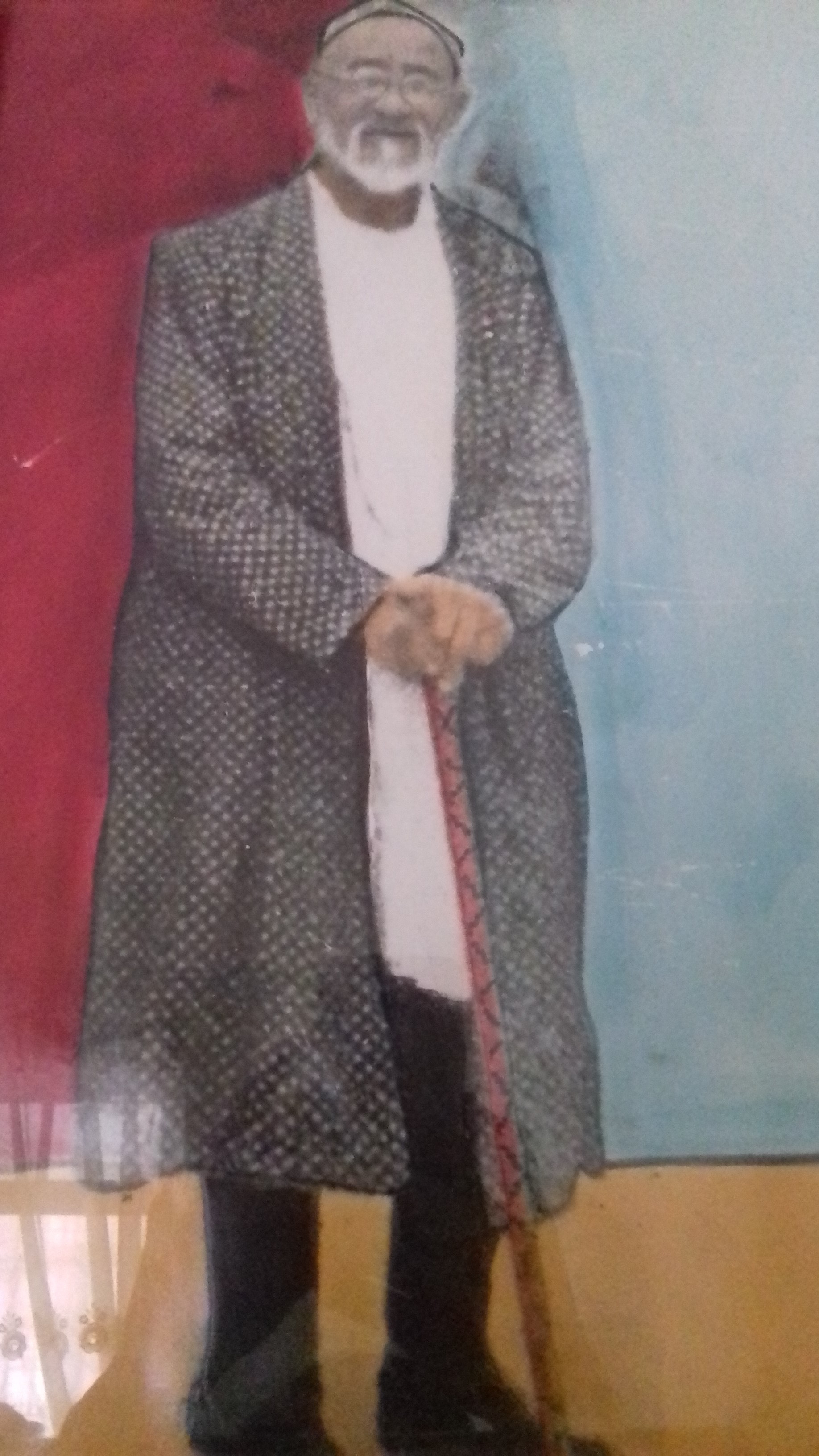 Mömin Bâbâ Samarqandi